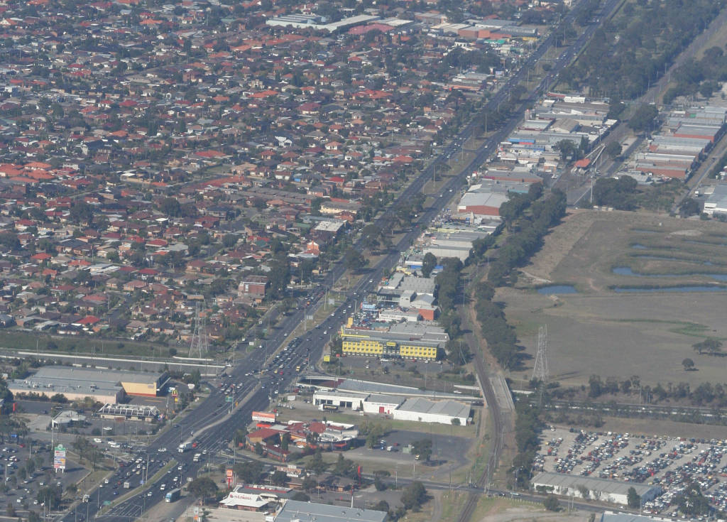 Aerial view of Fawkner, Victoria looking south, from Sydney Road / Western Ring Road